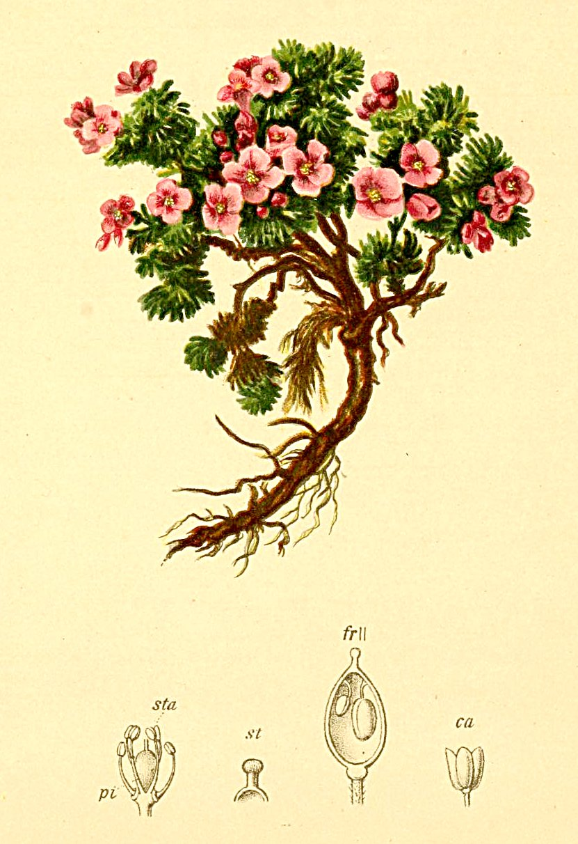 Petrocallis pyrenaica